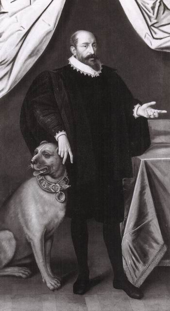 Portrait of Ferdinand von Bayern (1550-1608)